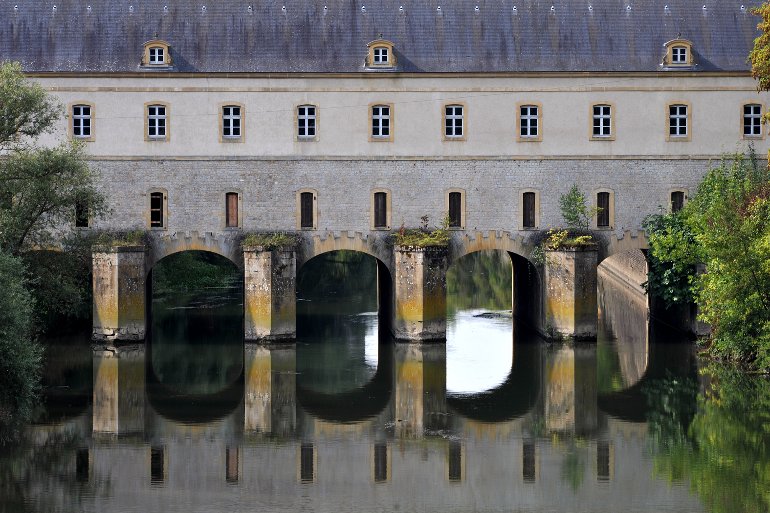 Pont de Cormontaigne, Pont-écluse Sud, one of the two historical Ponts sur le canal des fortifications in Thionville; Moselle, France. Architect: Louis de Cormontaigne